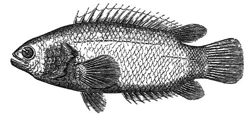 Ceylon Anabas oligolepis (=Anabas cobojius) of the Dry Tanks.